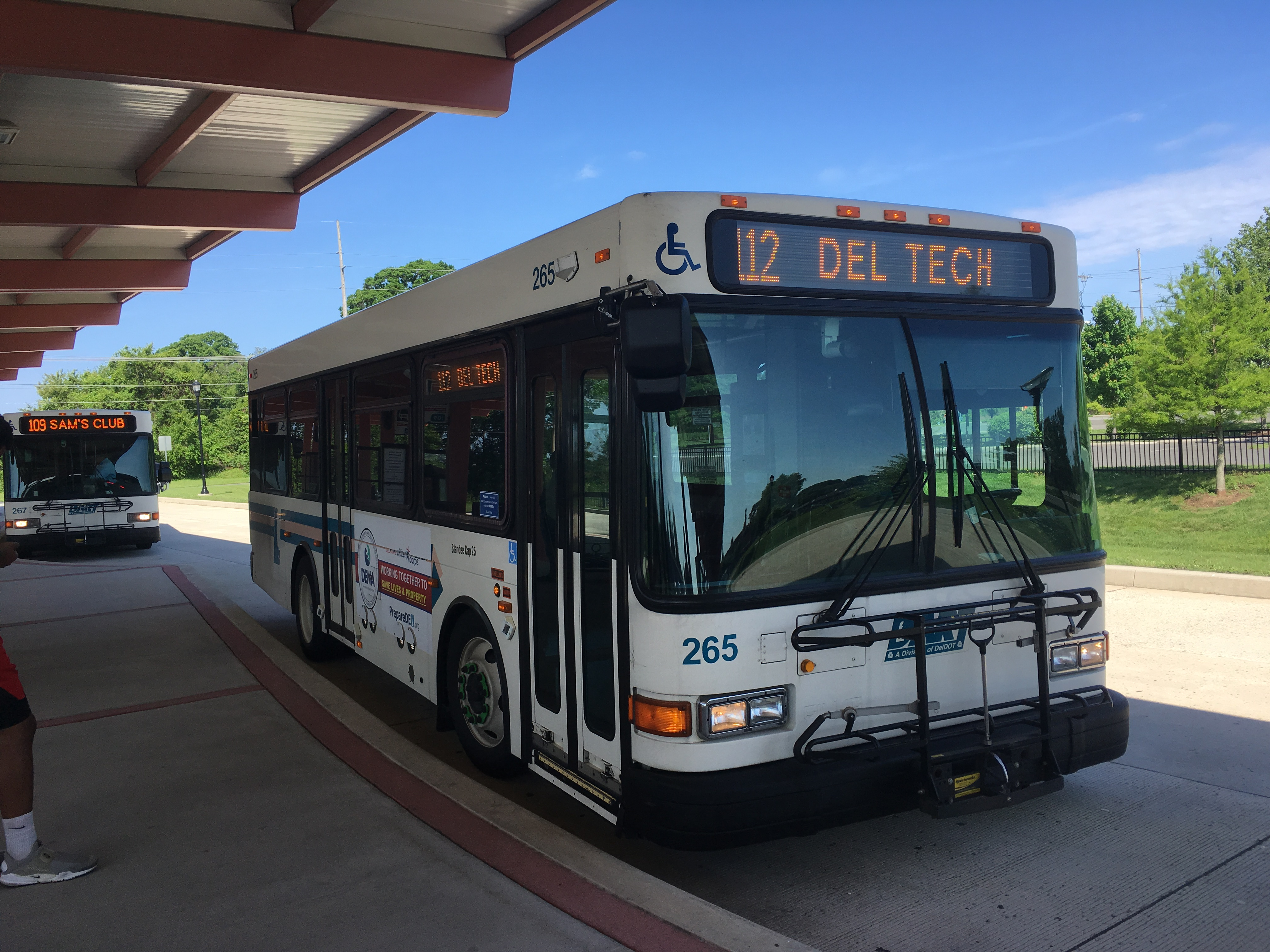 DART First State Gillig Advantage bus #265 on the Route 112 line at the Dover Transit Center in Dover, Delaware